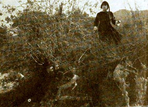 Still from the American film serial The Tiger's Trail (1919) with Ruth Roland and an unidentified actor (in the shadow of the bush), on page 501 of the April 26, 1919 Moving Picture World.